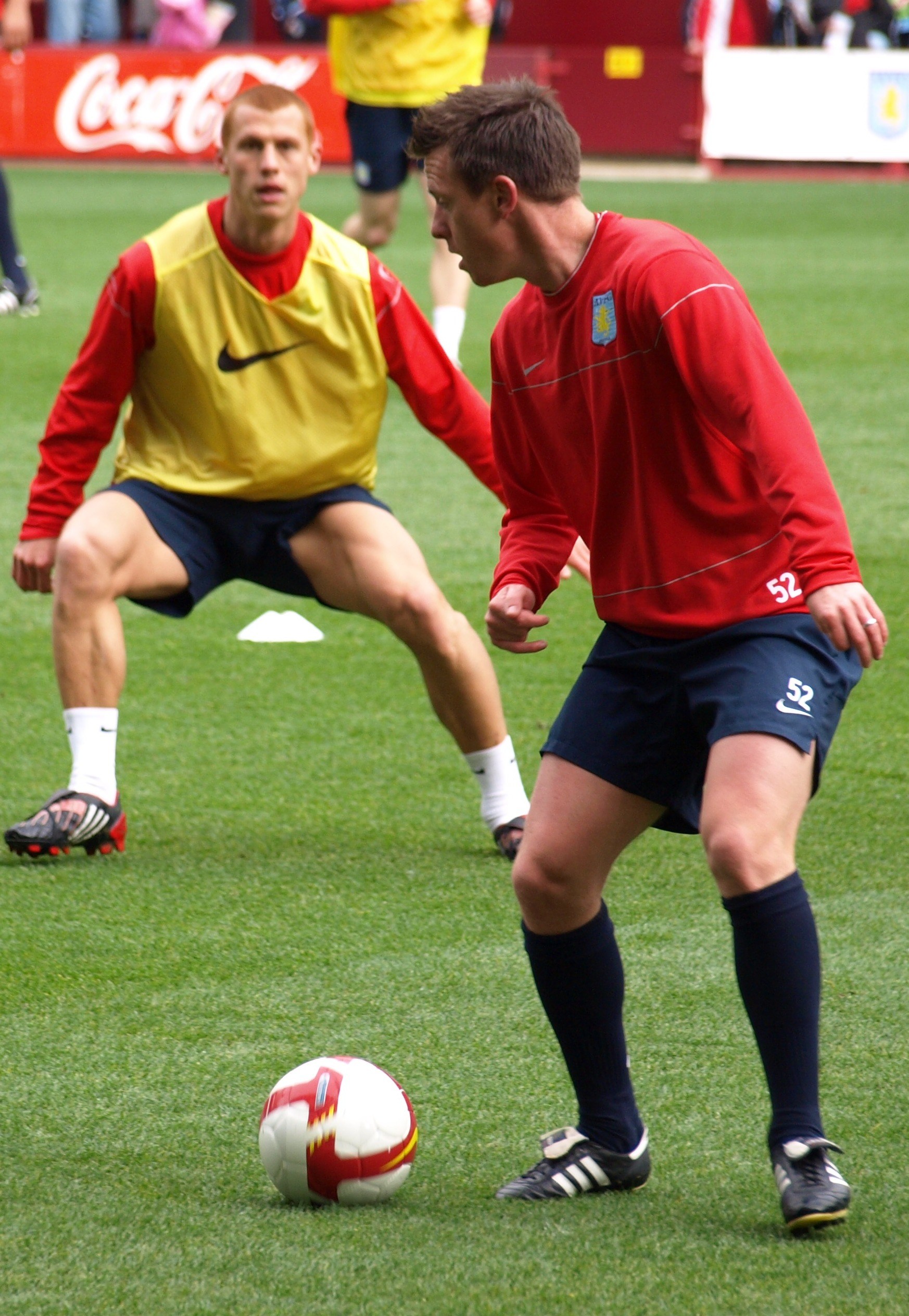 Nicky Shorey in training, Picture by Gus Stephens